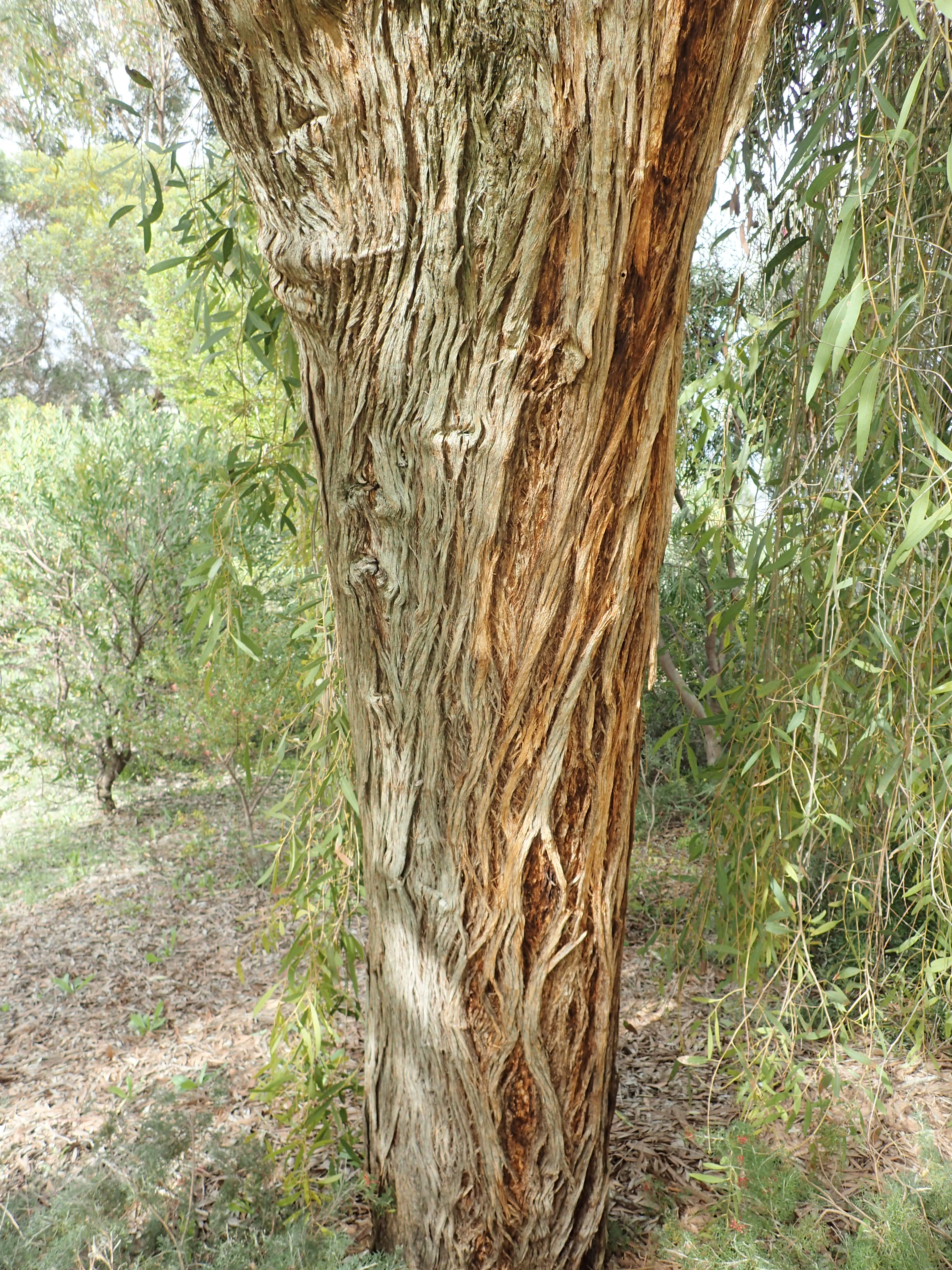 Bark of Eucalyptus todtiana in Kings Park, Perth